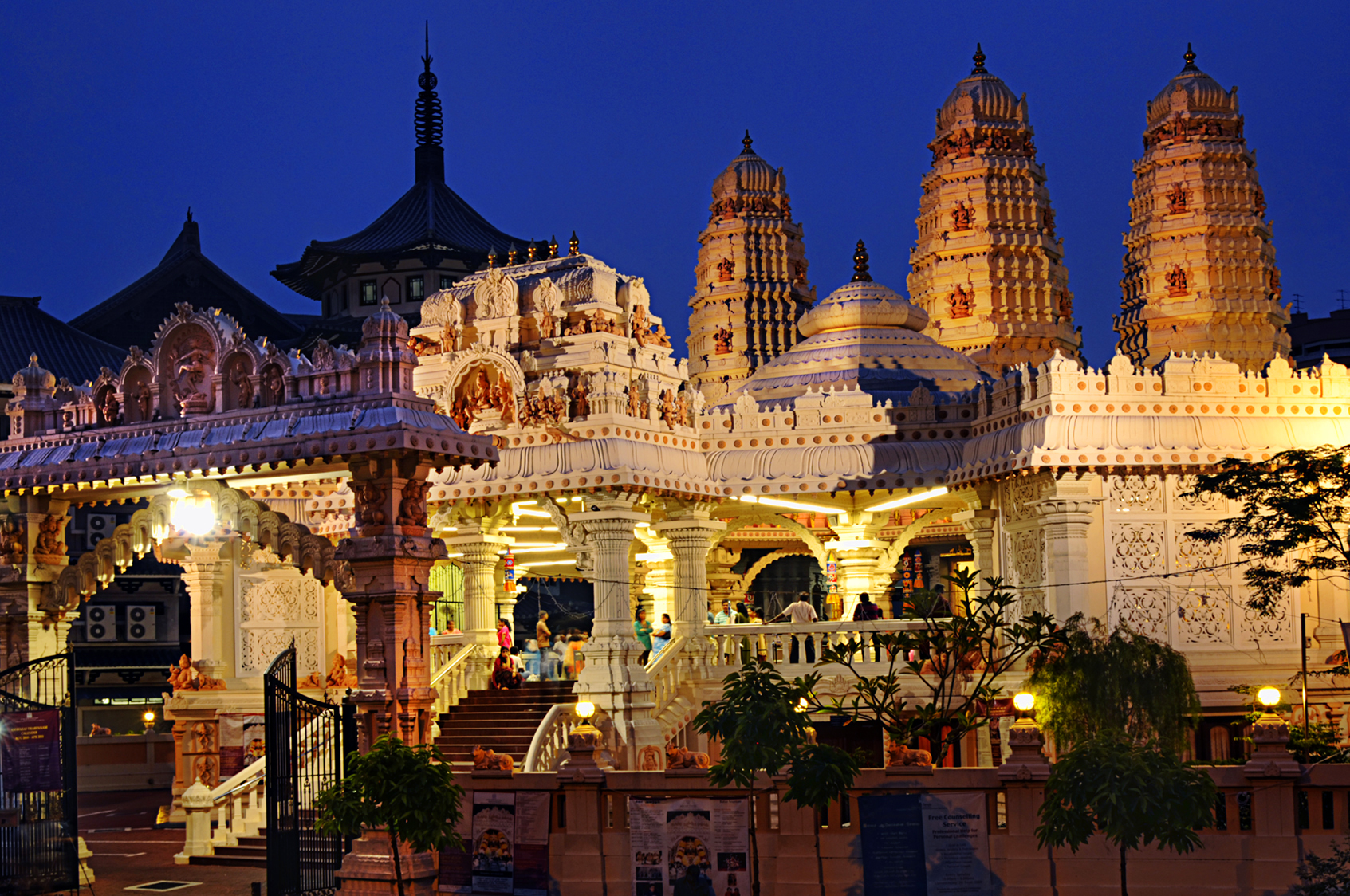 About Sri Sivan Temple This is one of the important Hindu Temples in Singapore, attracting hordes of devotees throughout the year. Daily prayers are offered and major festivals like Maha Sivarathiri and Vasantha Navarathir are celebrated with complete fanfare. Temple etiquette requires visitors to be dressed appropriately and shoes to be removed at the entrance. Location: Geylang East Ave 2, Singapore Night outing with Reggie and Henry...